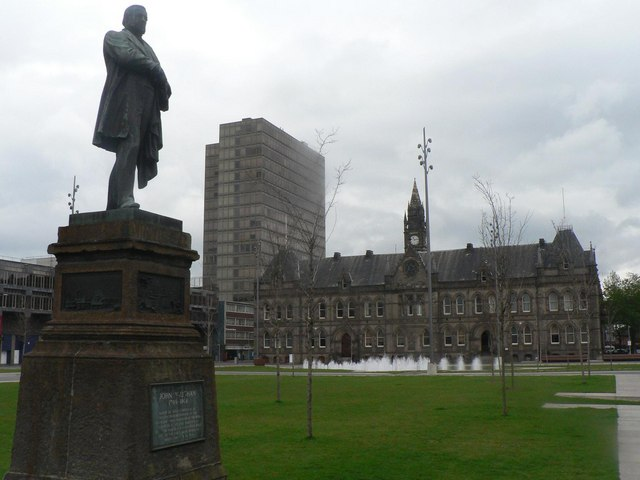 Middlesbrough: John Vaughan statue John Vaughan (1799-1868) was a mayor of Middlesbrough. The 796556 is beyond.